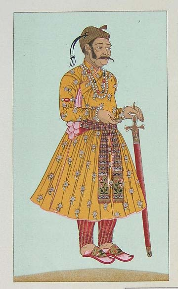 "Mourad Bakche, imperial prince, son of Shah Djehan and brother of Aureng Zeb," an engraving by Albert Racinet, Paris, 1878 Source: ebay, June 2007